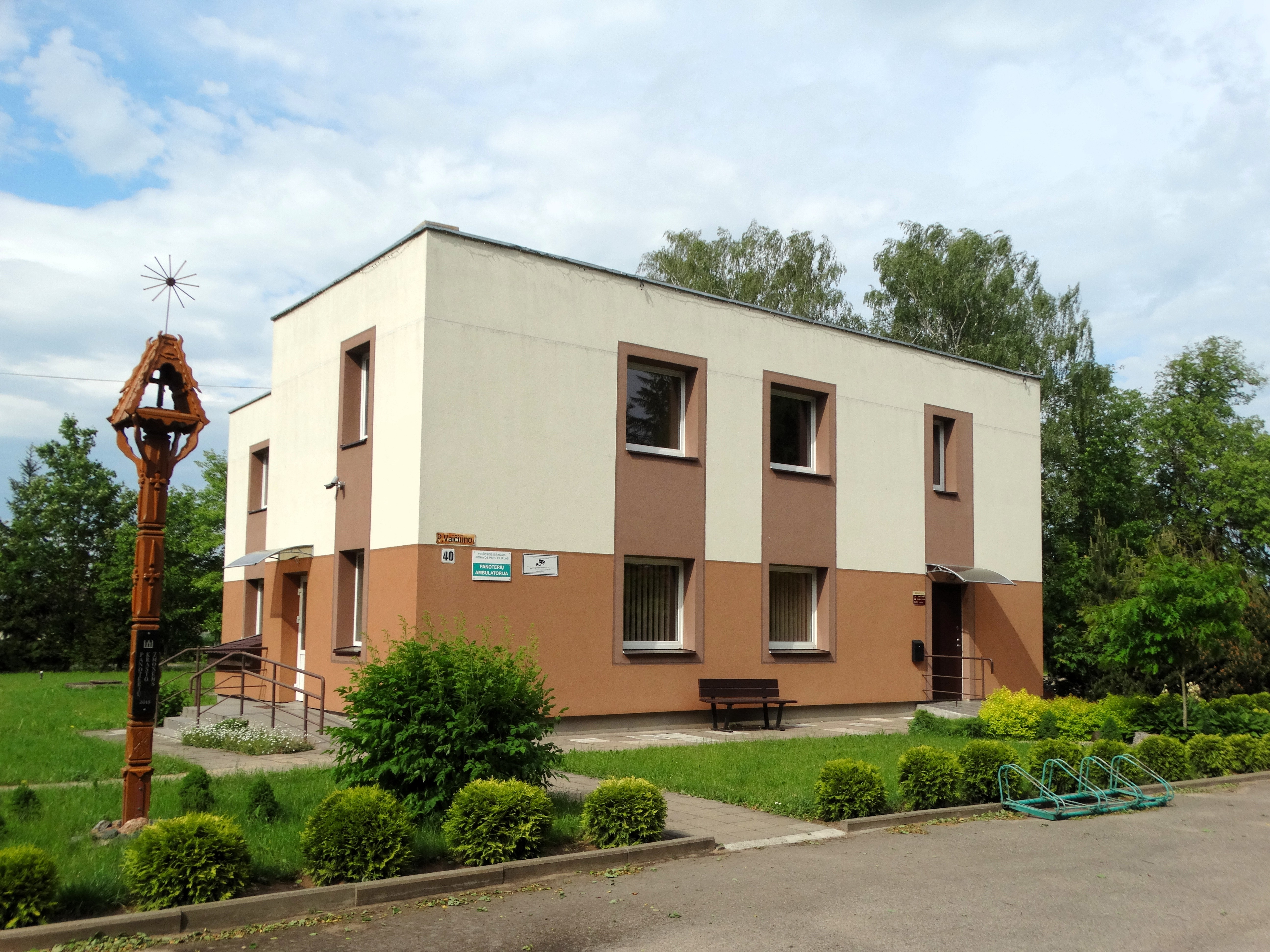 Panoteriai, ambulatory, library, Jonava district, Lithuania